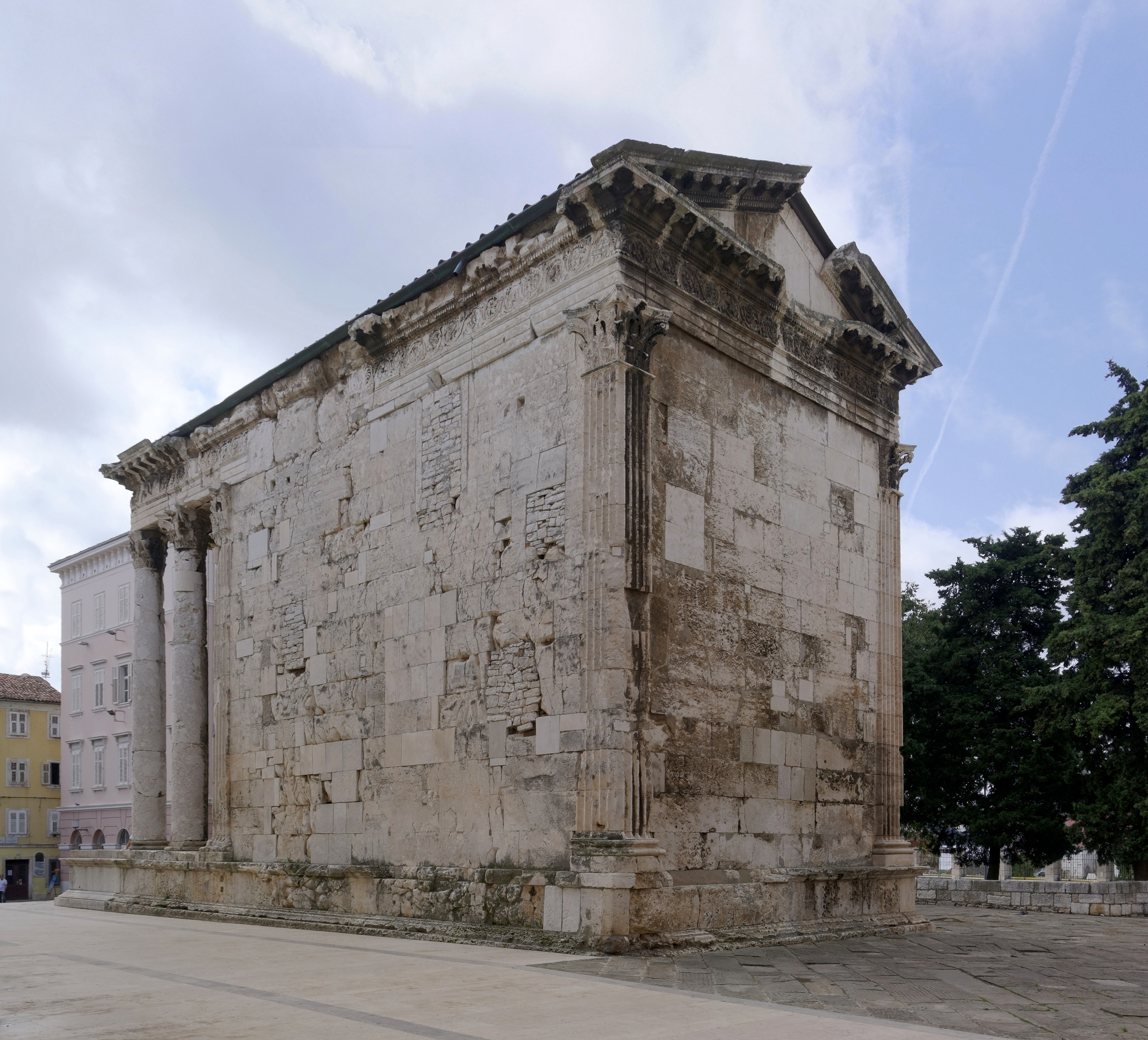 Croatia, Pula, Temple of Roma and Augustus, view from north